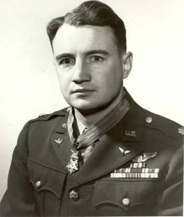 Jay Zeamer